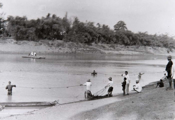 Fishing in Citarum river, Telukjambe